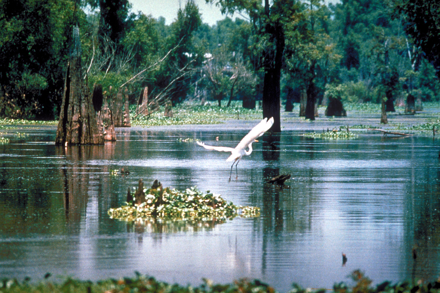 A scene in the Atchafalaya Basin in Louisiana, USA, in the Sherburne Complex Wildlife Management Area, a Nature Conservancy reserve.